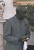 Zambian President Kenneth Kaunda during a visit to the White House on May 17, 1978.